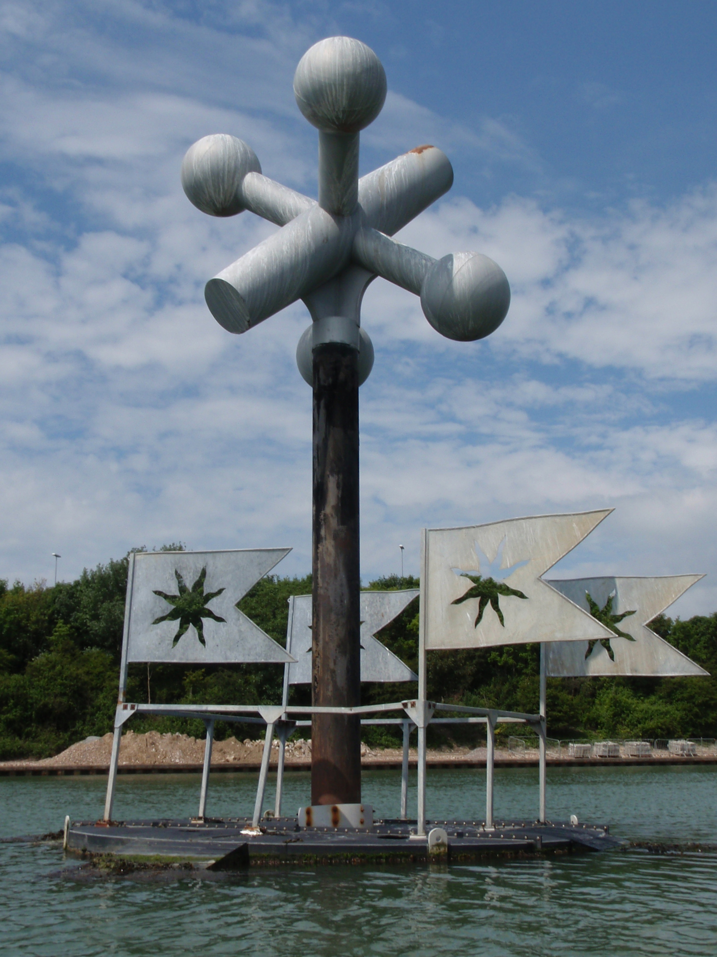 Photo of the Jack Star sculpture by Richard Farrington on Tipner lake